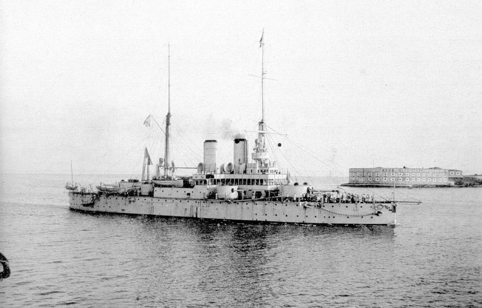 The Imperial Russian battleship Rostislav in Sevastopol, 1910s.